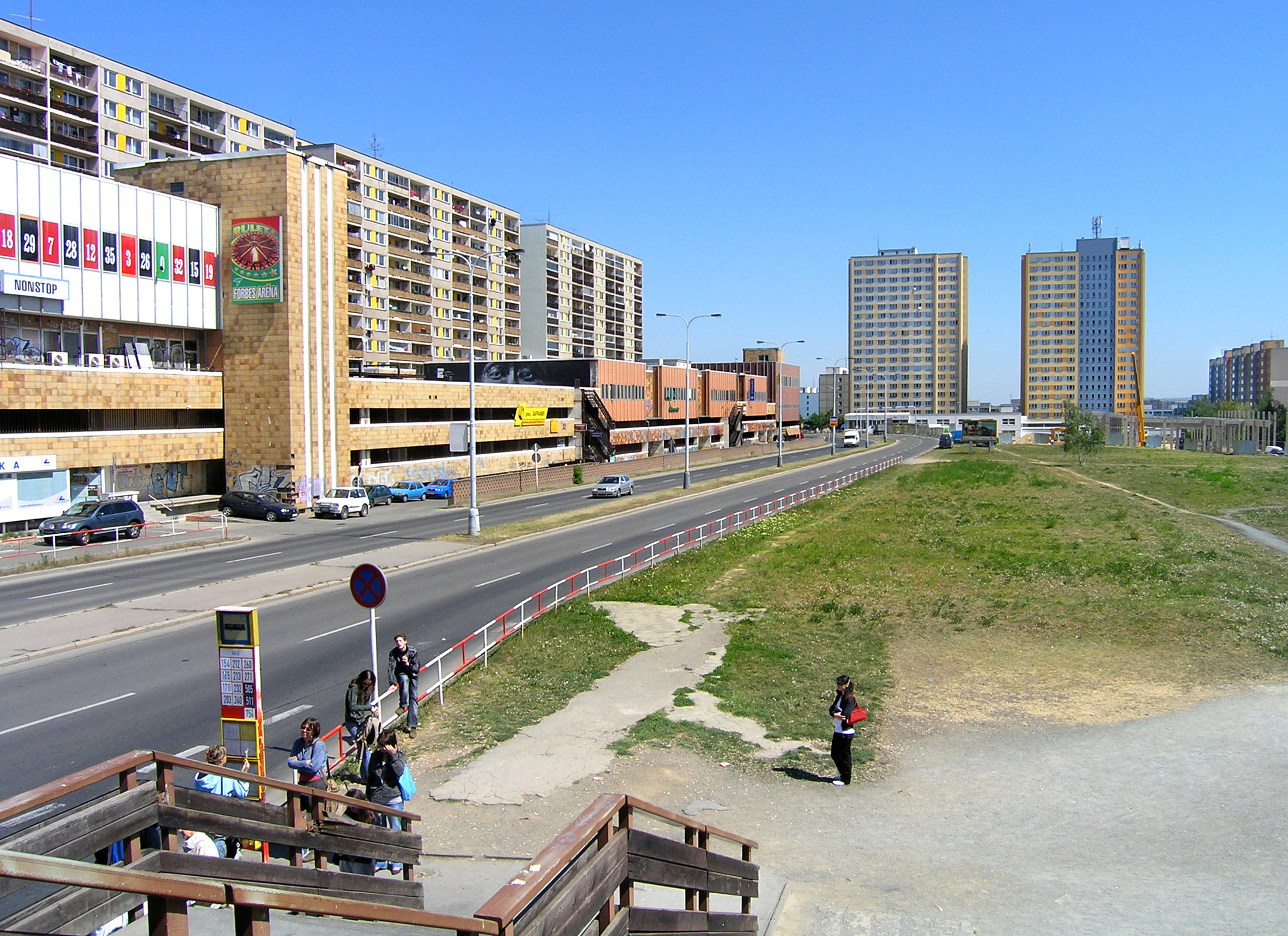 Opatovská street at Háje, Prague